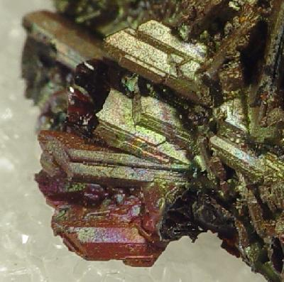 Goethite, Gypsum Locality: Hercules Mine (Negra Mine), La Negra, Municipio de Carmargo, Chihuahua, Mexico (Locality at ) Size: thumbnail, 2.4 x 1.9 x 1.2 cm Goethite ps. Gypsum Delicate and very attractive pseudomorph in which the Gypsum is perfectly replaced by the Goethite. Each sharp blade shimmers with a green or red iridescence that gives this excellent thumb a beauty all its own. 2.4 x 1.9 x 1.2 cm